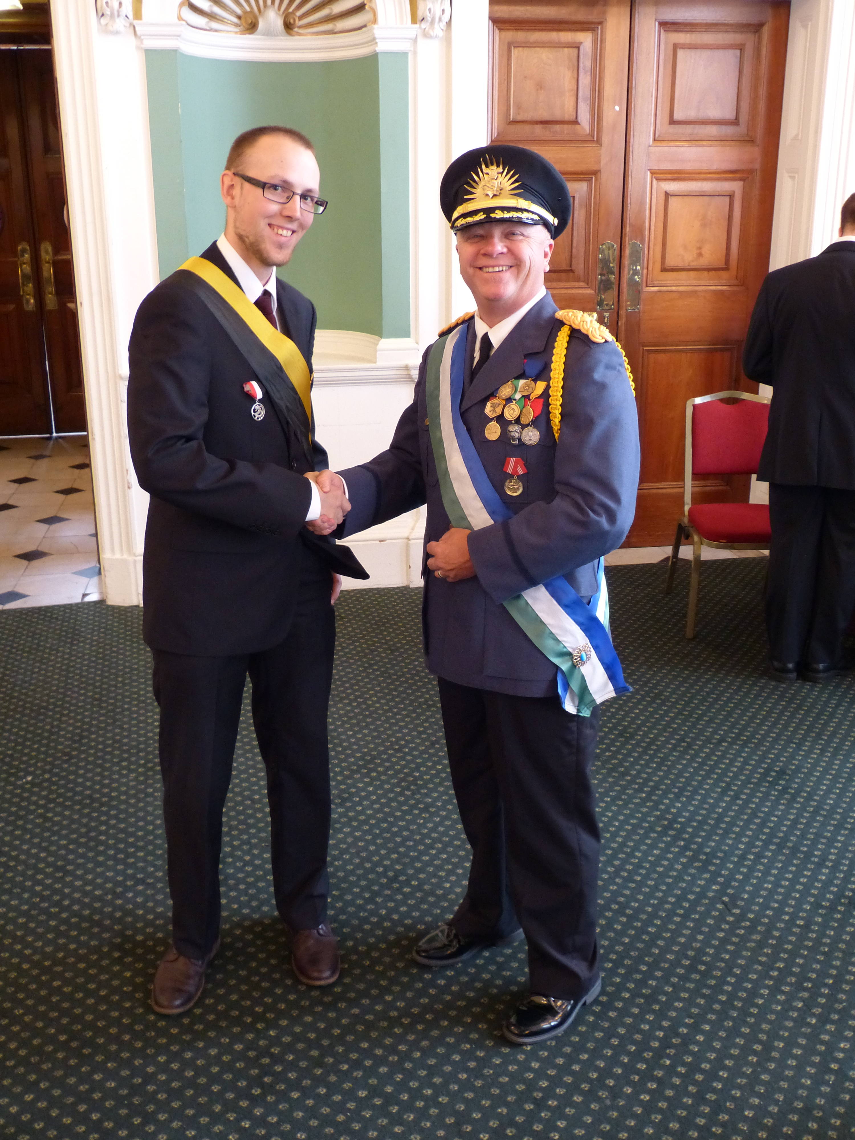 Niels Vermeersch with Kevin Baugh of the Republic of Molossia during PoliNation micronational Conference at London.